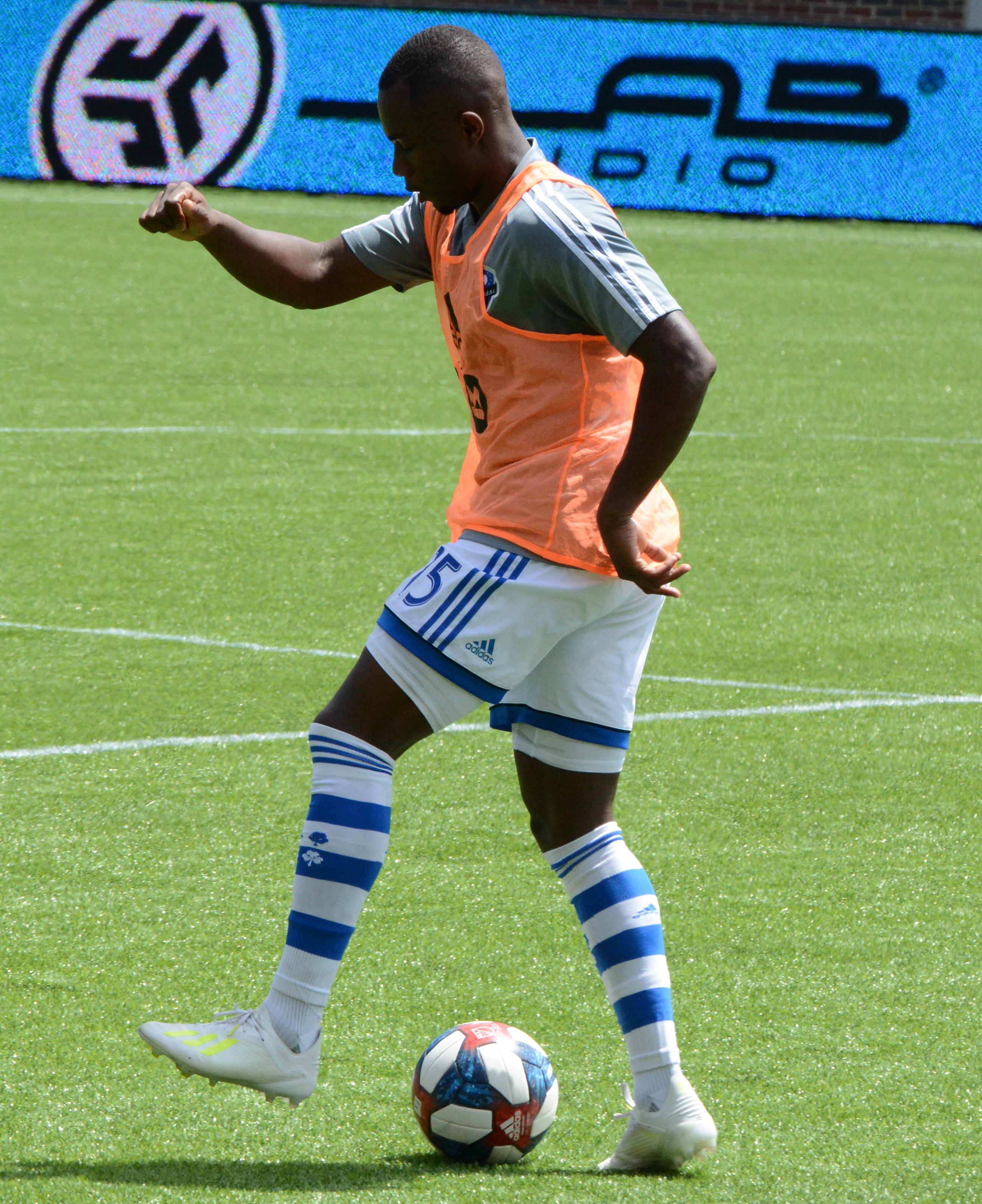 Taken during practice before a Major League Soccer regular season match between FC Cincinnati and Montreal Impact at Nippert Stadium in Cincinnati, USA on May 11, 2019